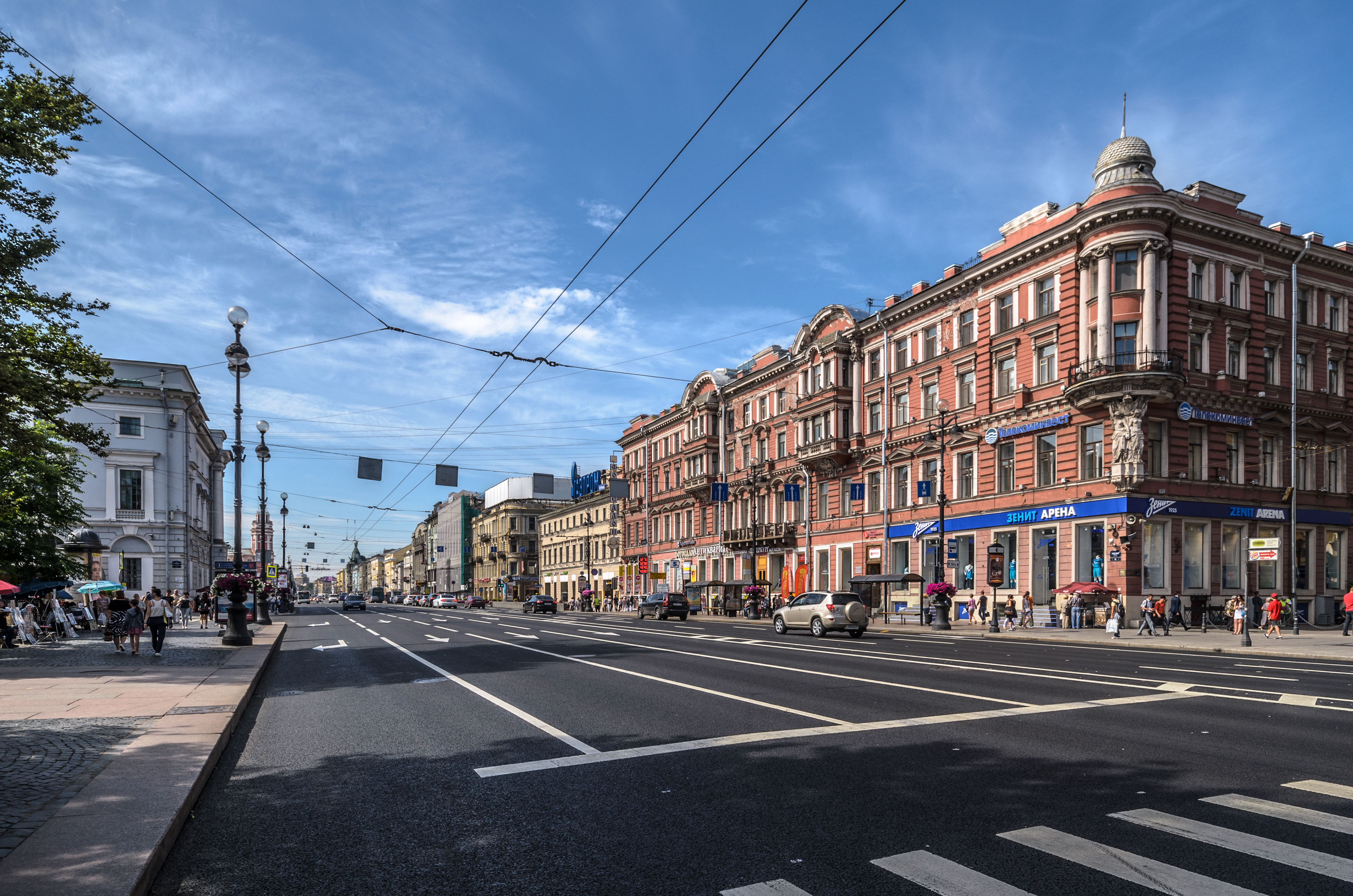 Nevsky Avenue in Saint Petersburg